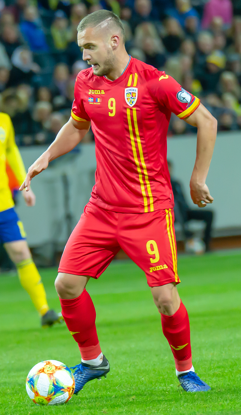 UEFA EURO qualifiers Sweden vs Romaina 20190323